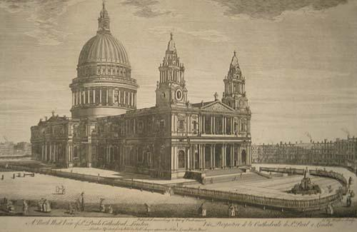 St Paul's from the north west in the 18th century. Drawn by JM Meuller. The height of the body of the building appears to be understated relative to the dome, and the extent of the surrounding space is exaggerated.